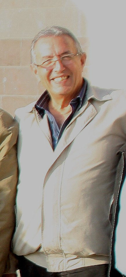 Shlomo Buhbut, mayor of Ma'alot-Tarshiha